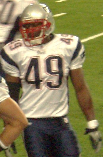 New England Patriots player Eric Alexander (#49) and others.